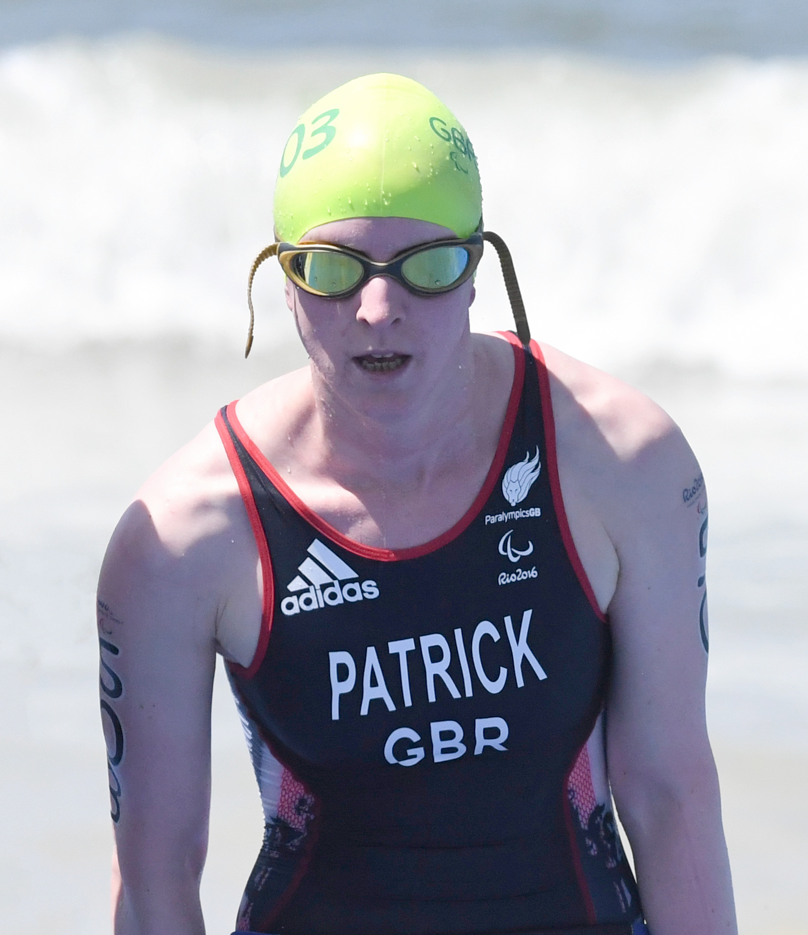 Hazel Smith (guide) & Alison Patrick - Rio de Janeiro - Women's Triathlon PT4, PT2 e PT5, at Copacabana. Competition categories PT5. (Tânia Rêgo/Agência Brasil)